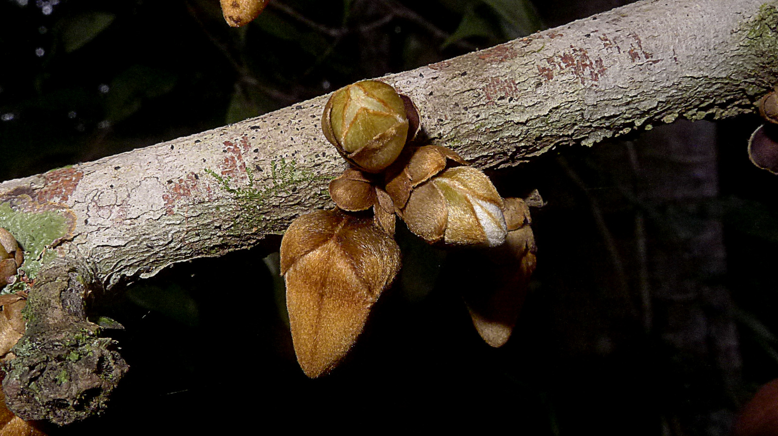 Xylopia ochrantha Mart.